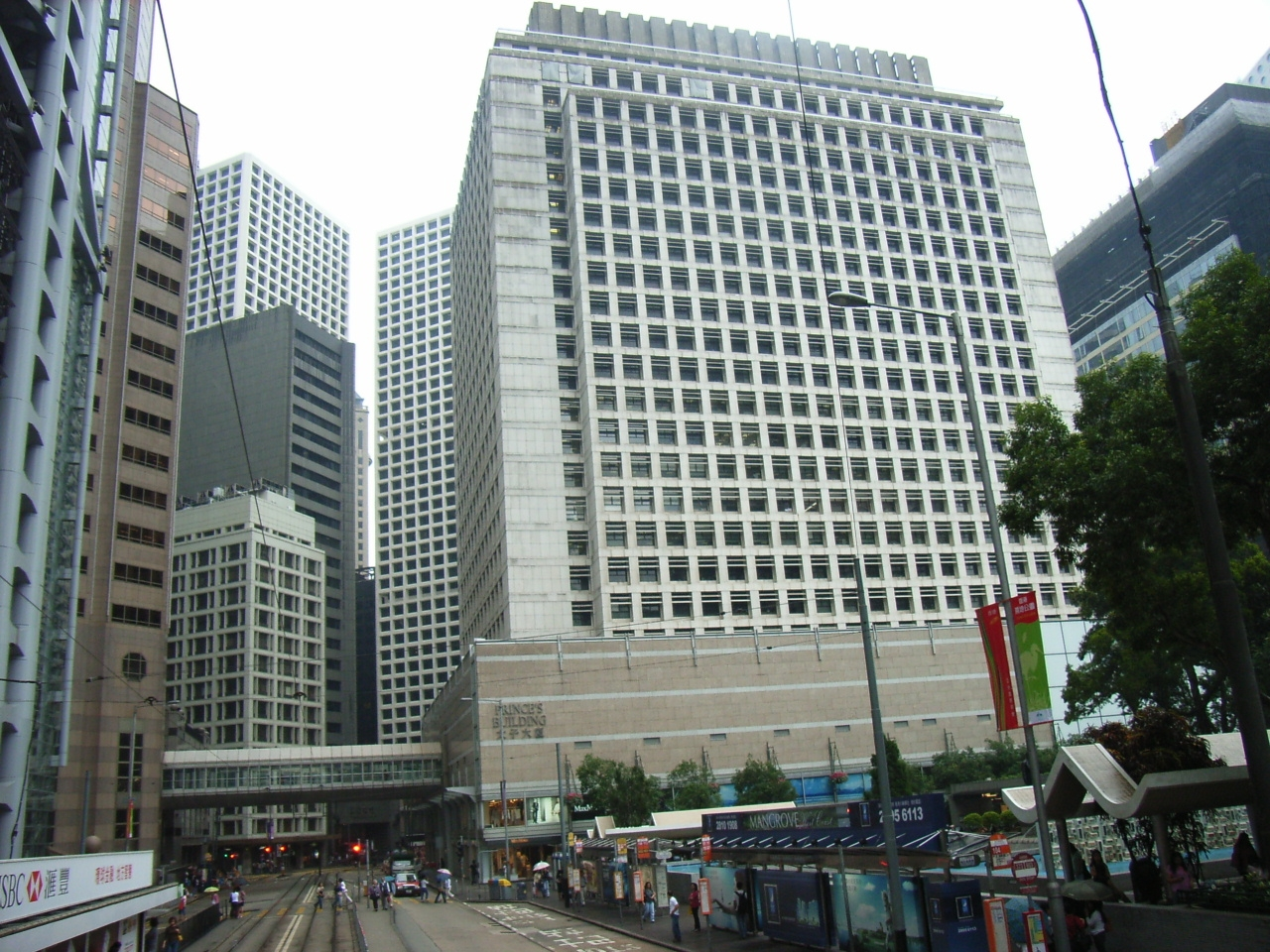 The Prince's Building (太子大廈), Central, HK AlbertCotton